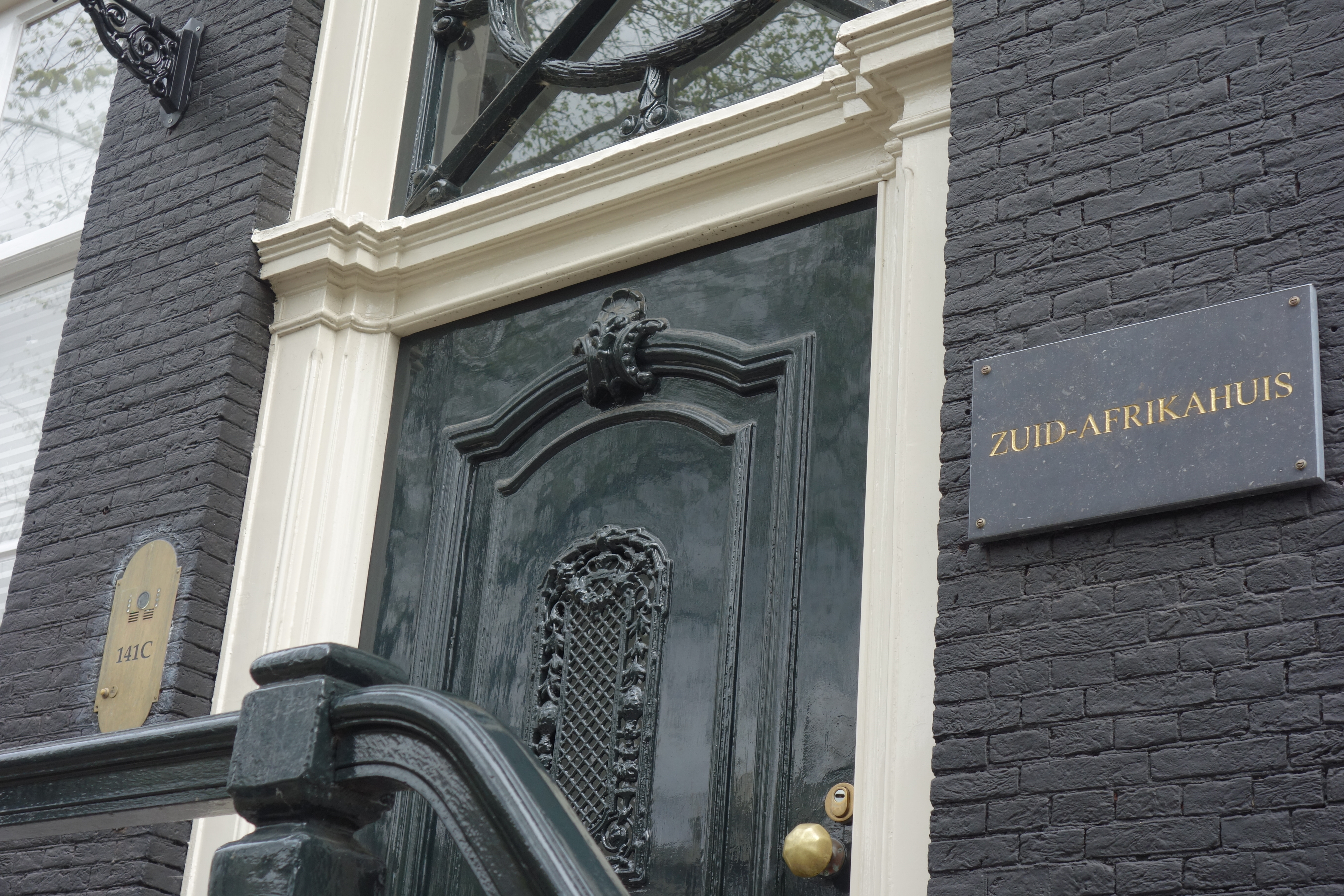 Zuid-AfrikaHuis, Keizersgracht 141, Amsterdam